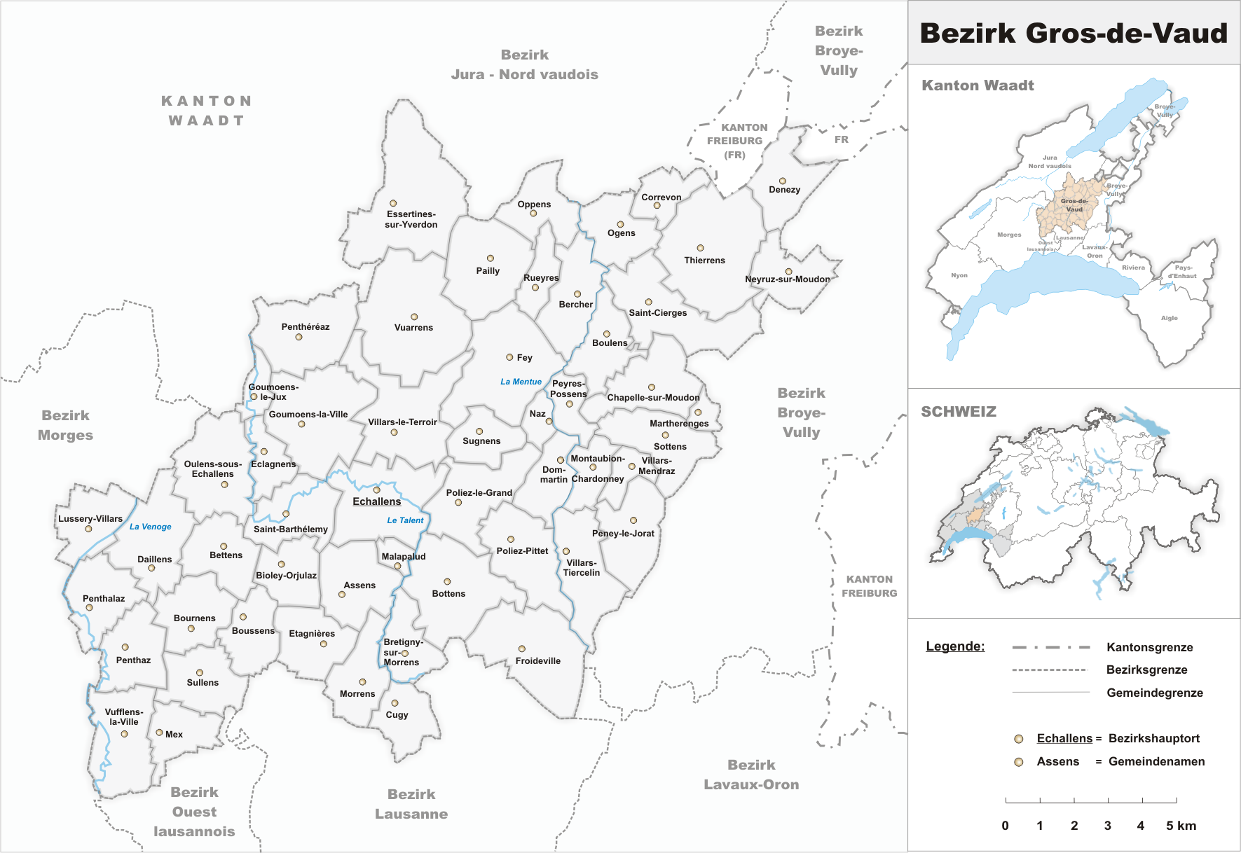 Municipalities in the district of Gros-de-Vaud